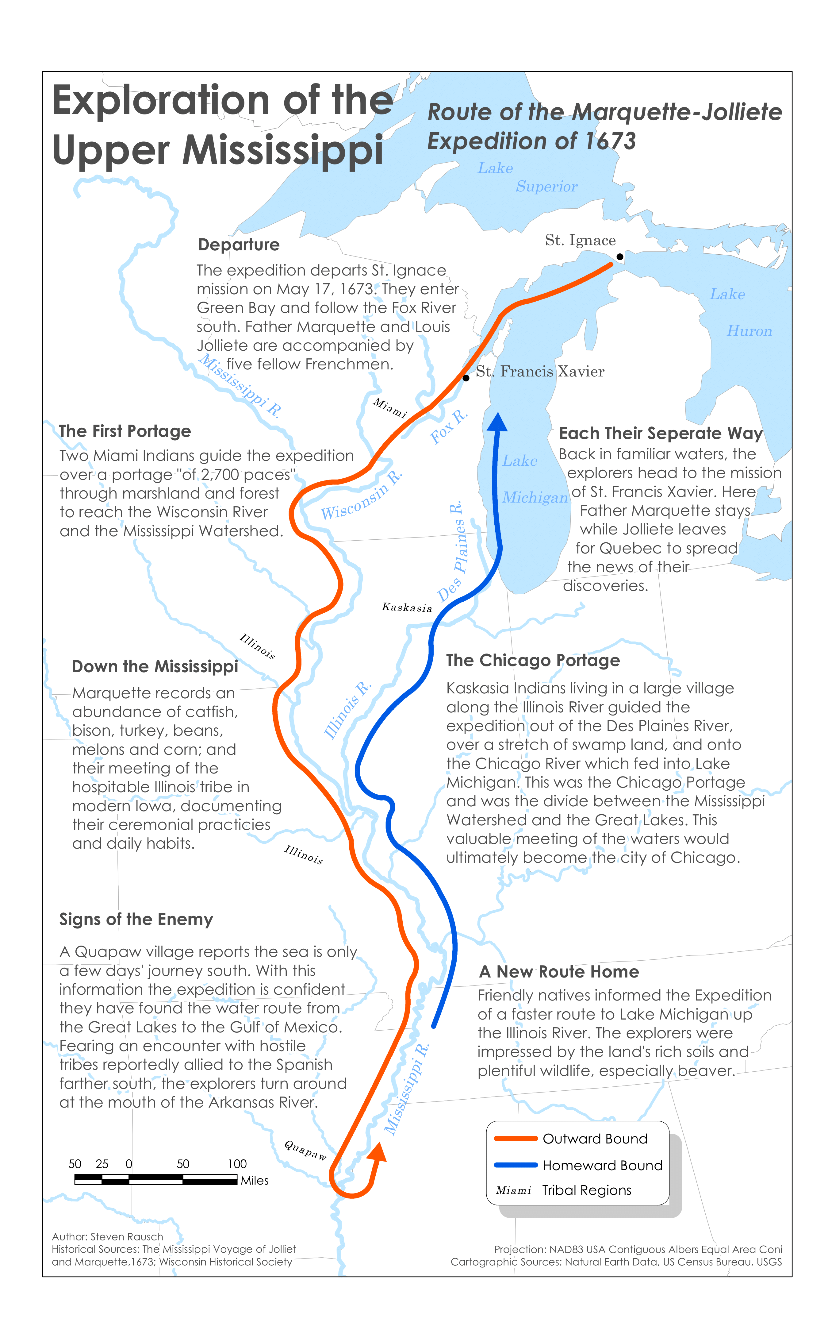 Route of the 1673 Marquette-Jolliete Expedition of the Upper Mississippi, including captions detailing events and labels of tribal areas.